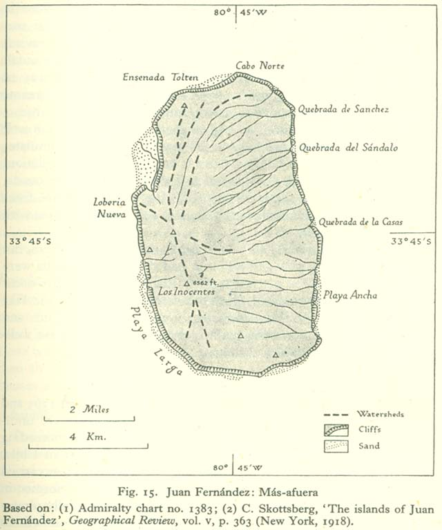 map of Alexander Selkirk Island, Juan Fernandez Island, Chile (East Pacific Ocean)